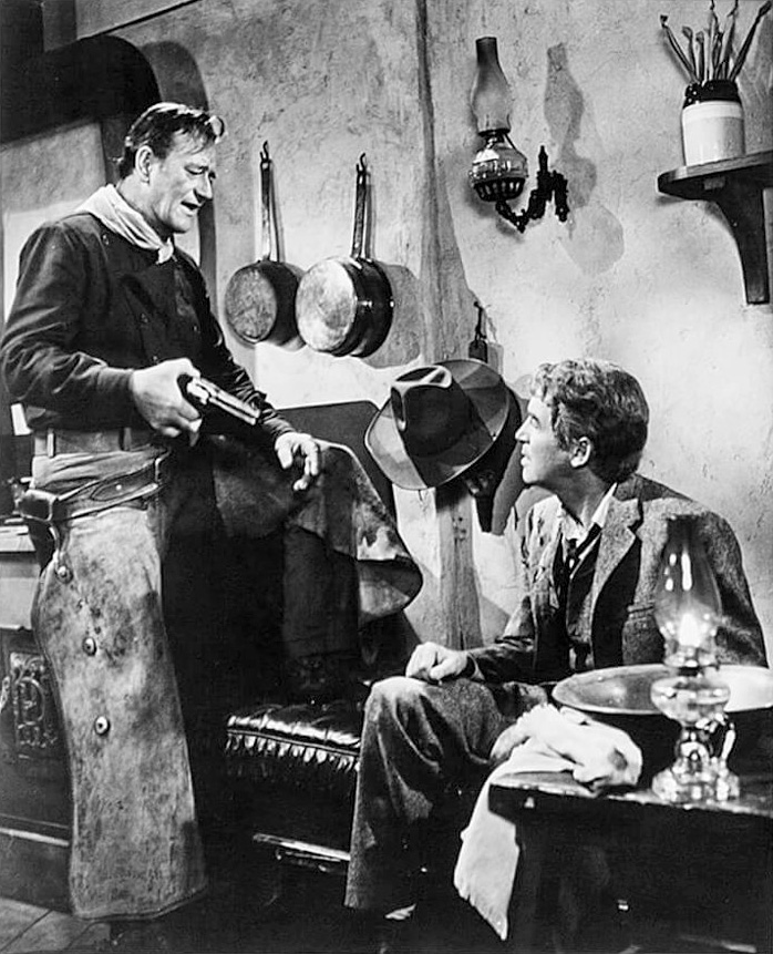 Publicity photo of John Wayne and James Stewart in the 1962 western The Man Who Shot Liberty Valance.